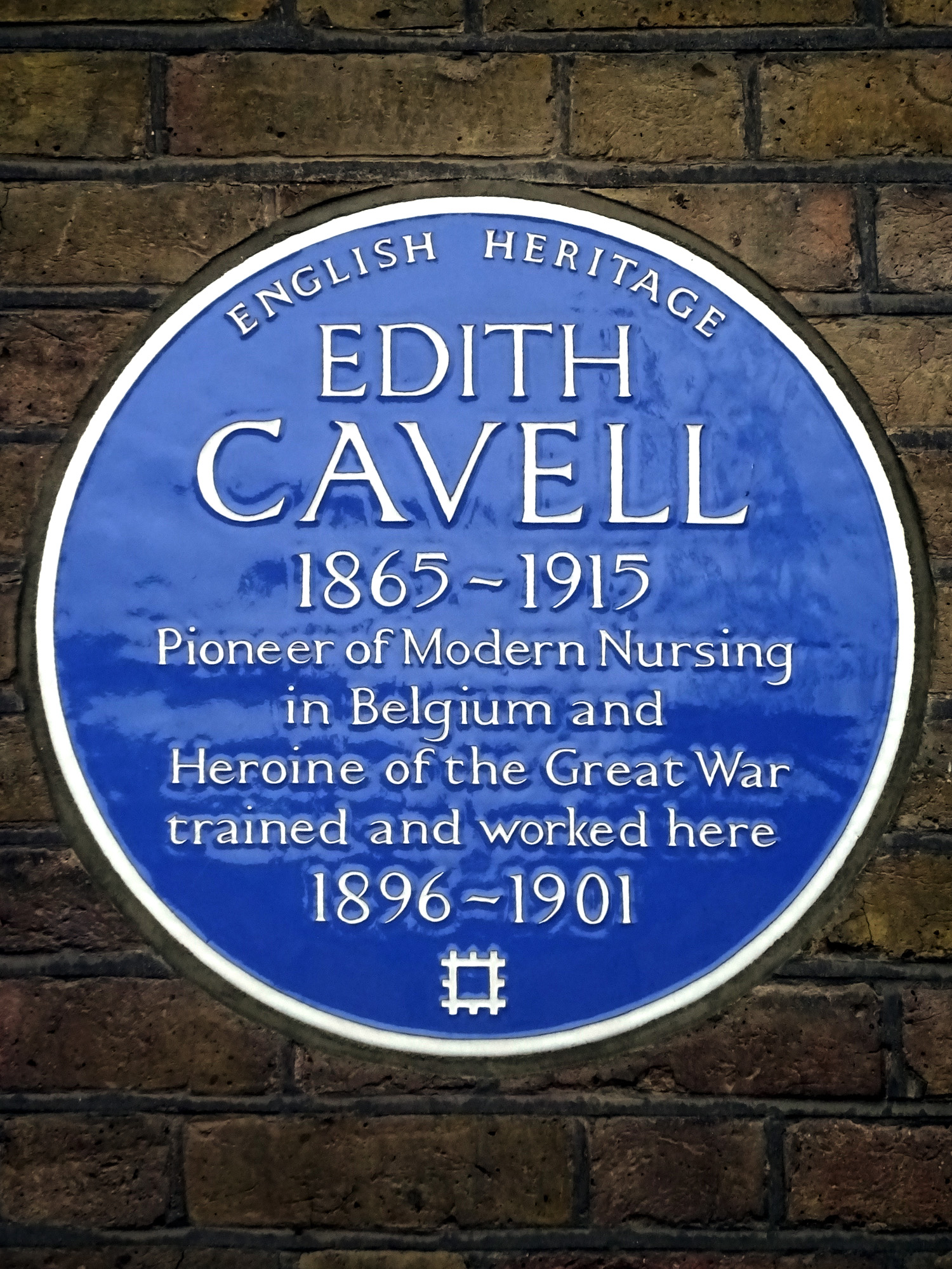 Edith Cavell - English Heritage Blue Plaque affixed to the Royal London Hospital, Whitechapel